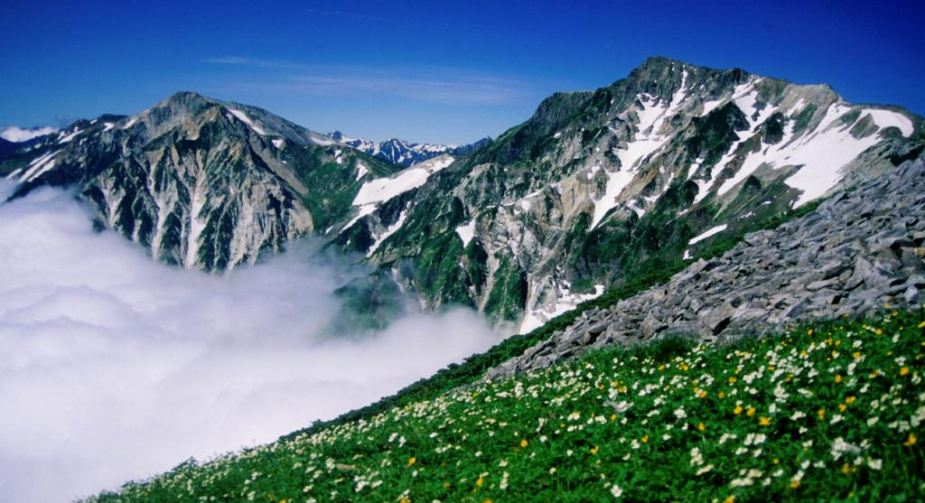 Mount Shirouma and Alpine plant seen from Mount Korenge in Ushirotateyama Mountains, Japan.